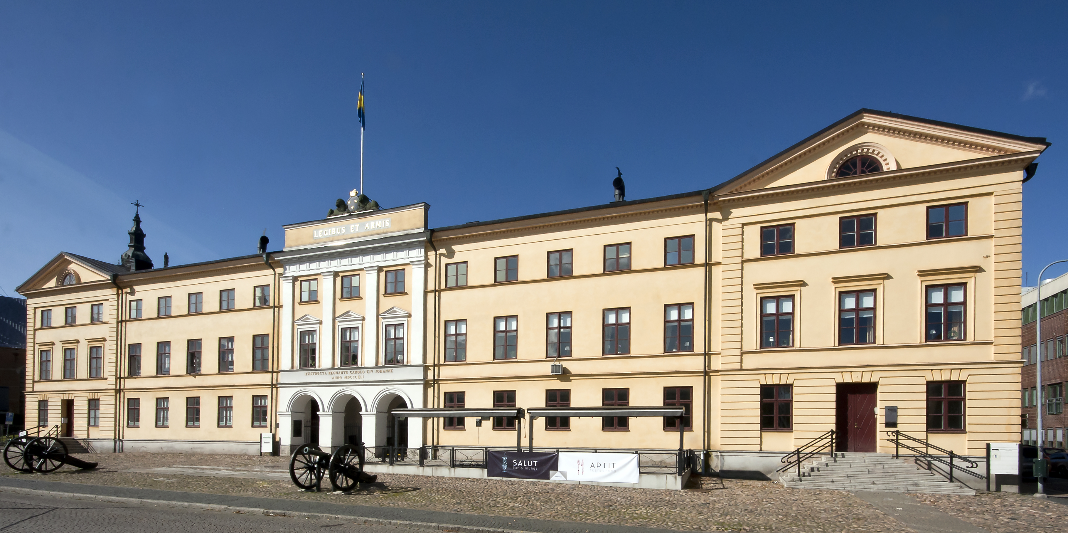 Stora kronohuset in the centre of Kristianstad. Built in 1840-41 as both courthouse and regimental quarters.